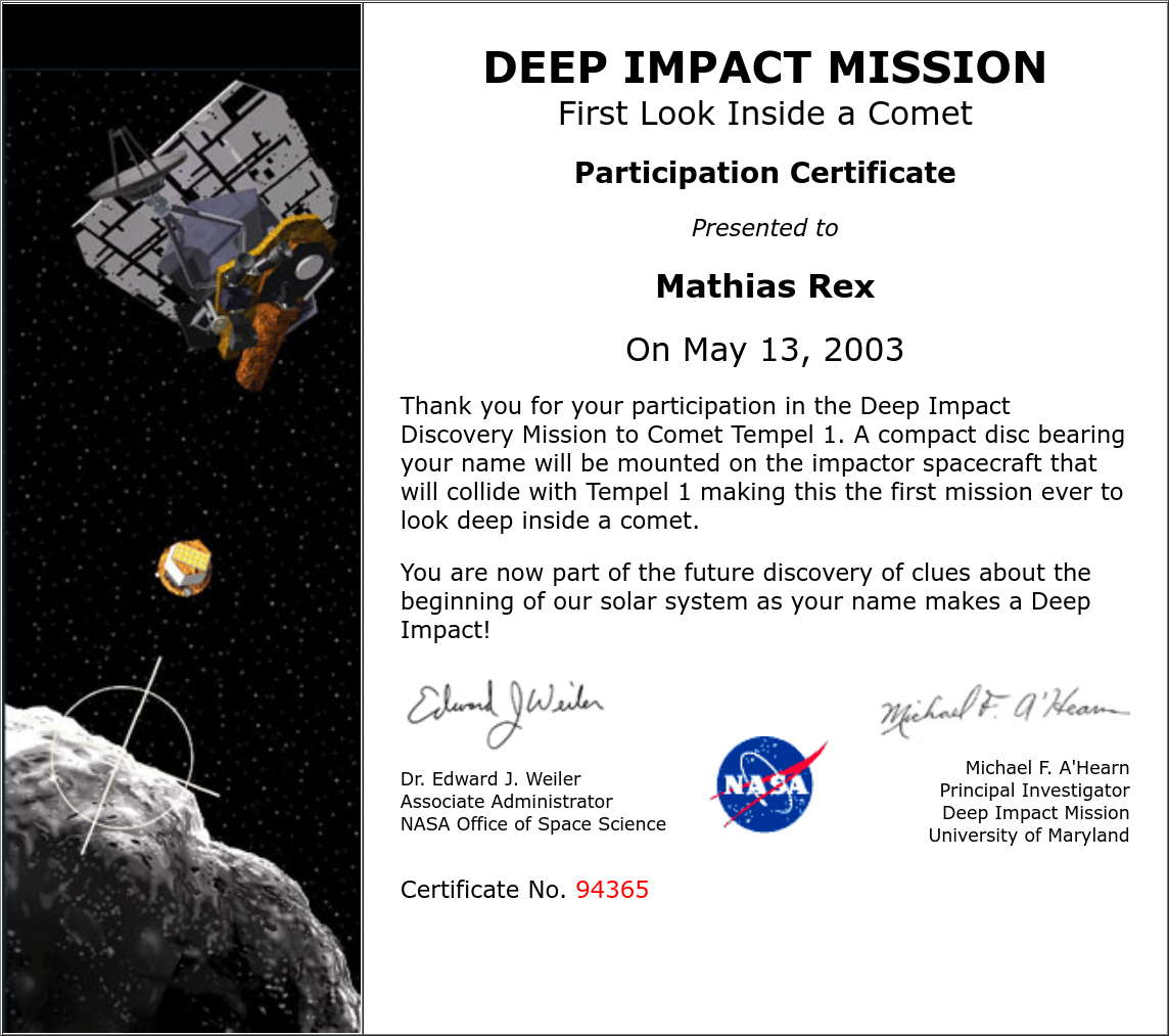 Deep Impact Mission certificate to Maciej Szczepańczyk (User:Mathiasrex)